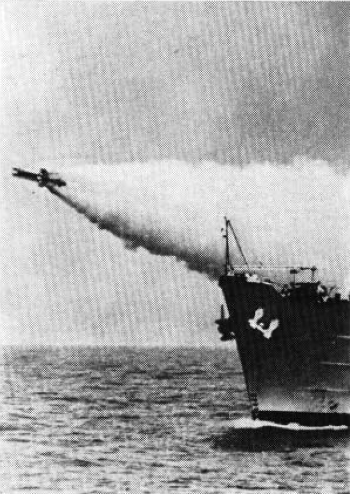 Launch of a Sea Slug missile from the Royal Navy missile trials ship HMS Girdle Ness (A387), circa 1961. Girdle Ness was used for missile tests from 1958 to 1961.